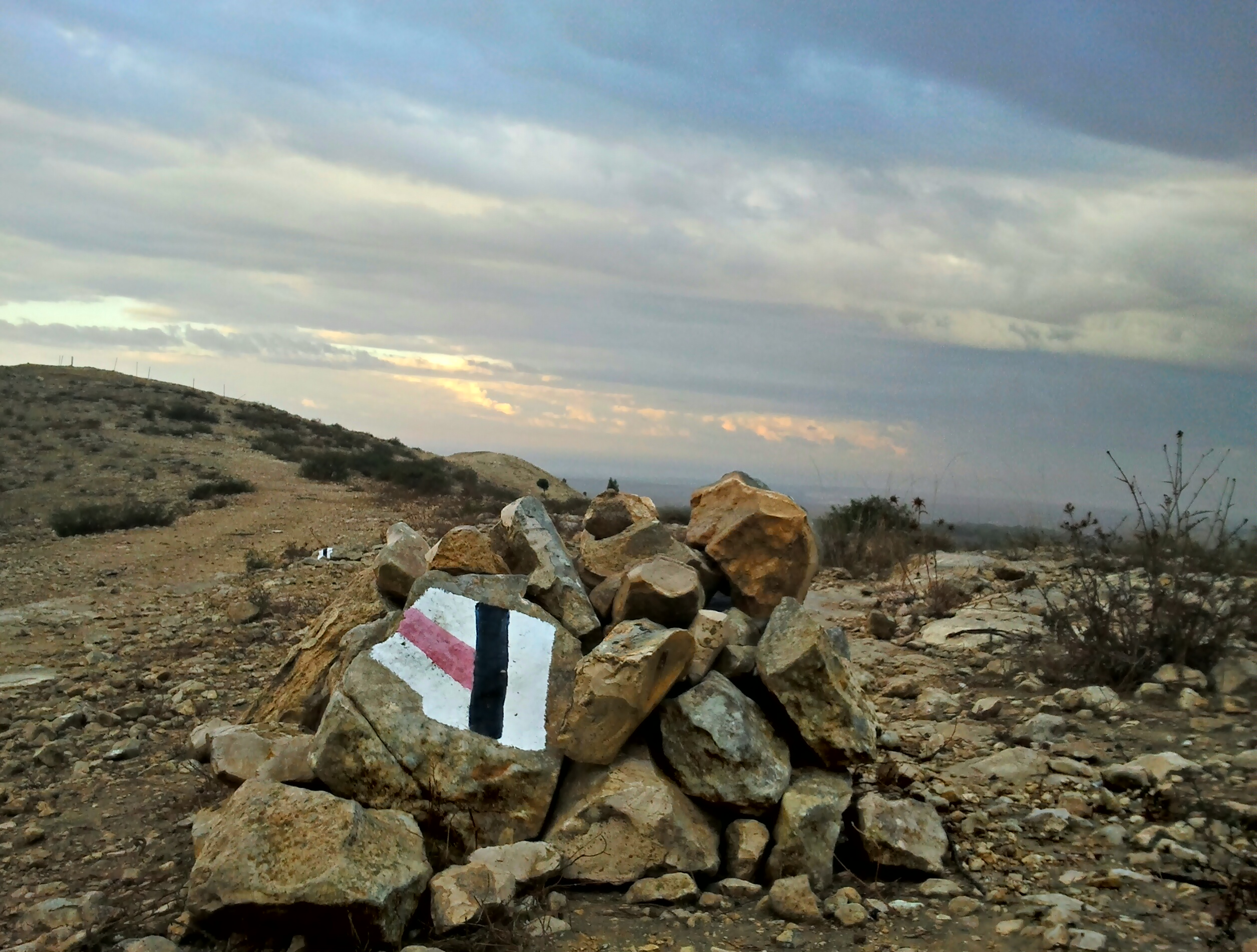 Section 1 of the Beer Sheva trail, north of Schunat Ramot. HDR photo